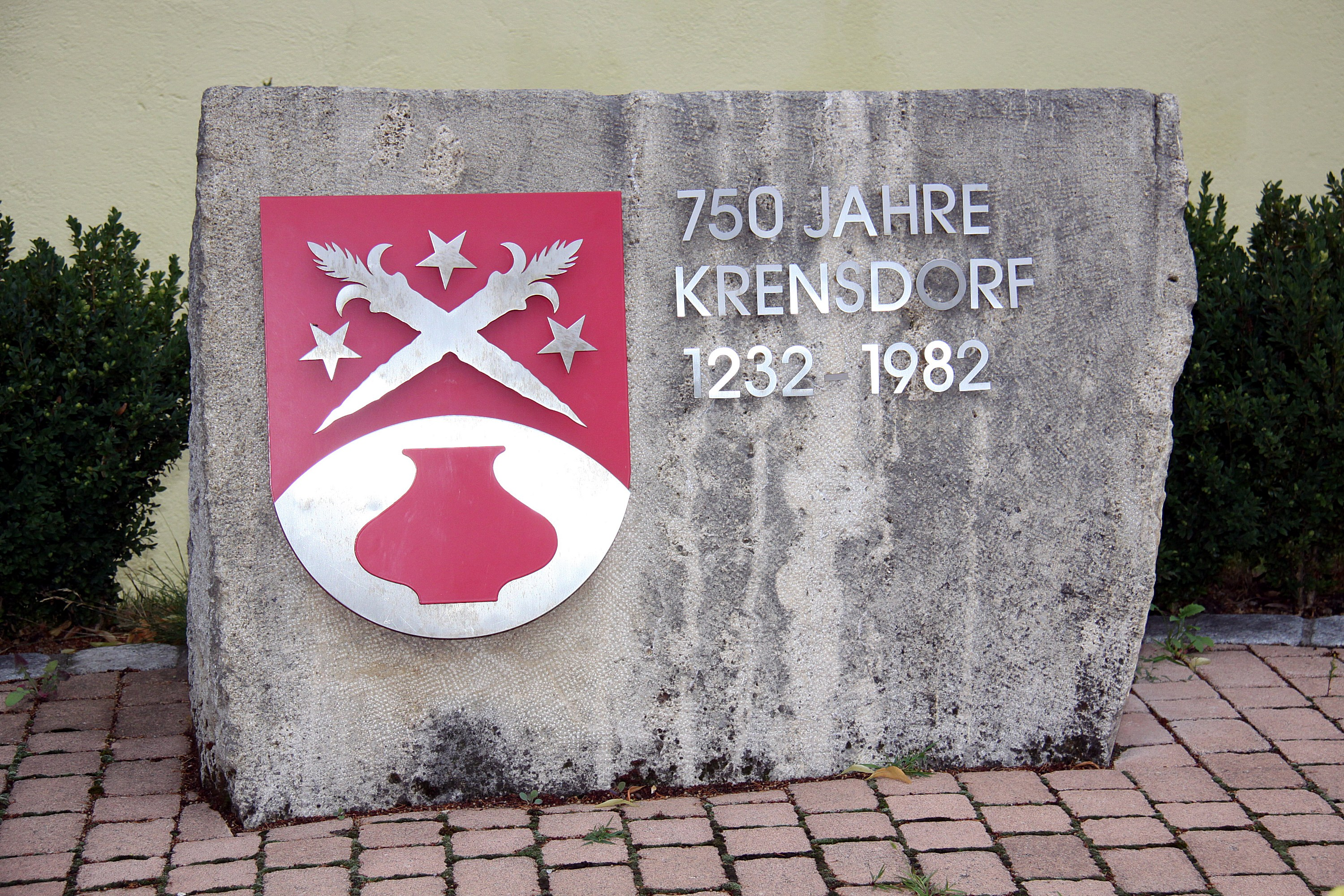 750 years Krensdorf (1232–1982) Object location47° 47′ 06.57″ N, 16° 24′ 54.54″ E